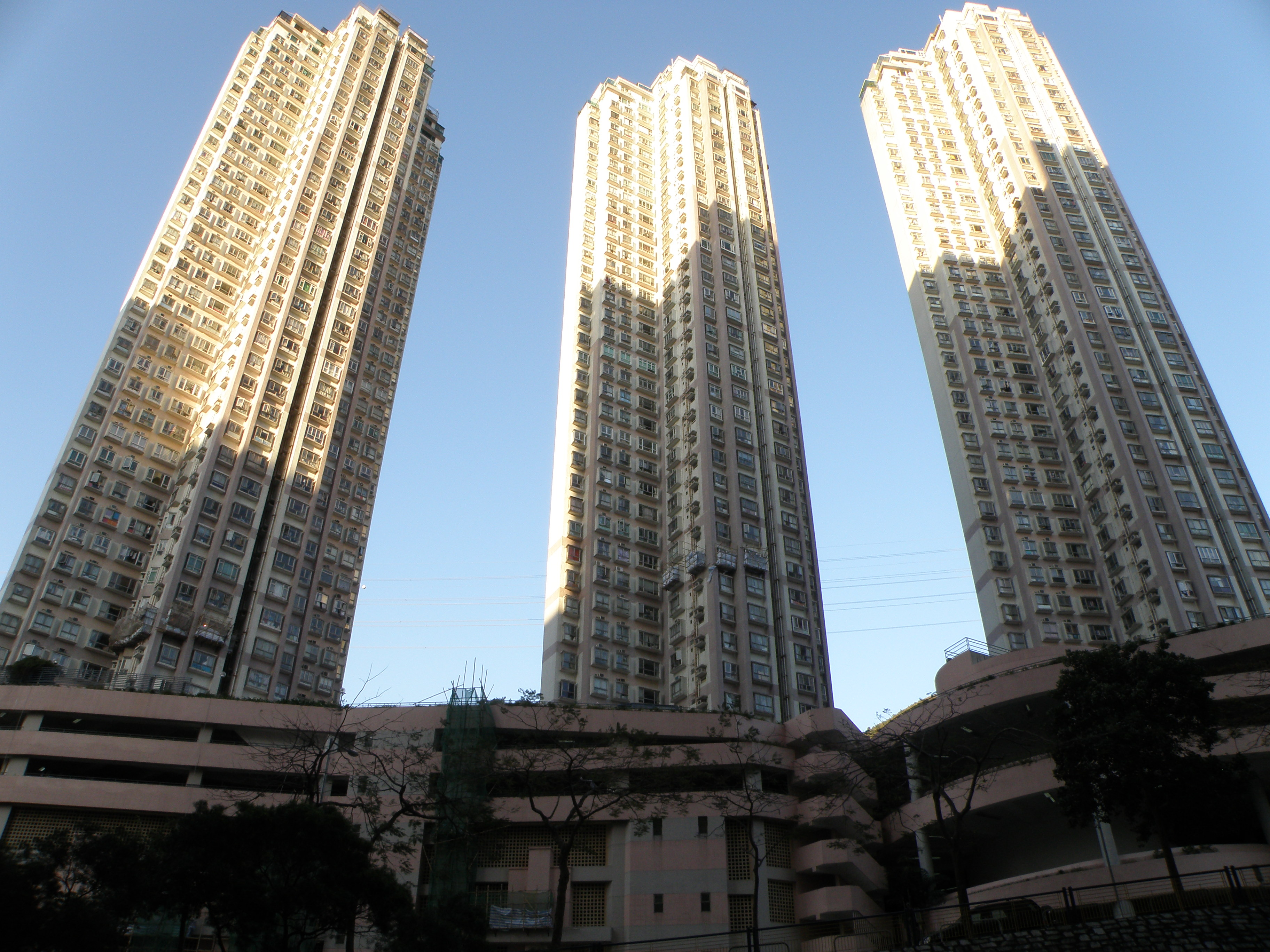 Hill Top Gardens in Hammer Hill, Hong Kong.